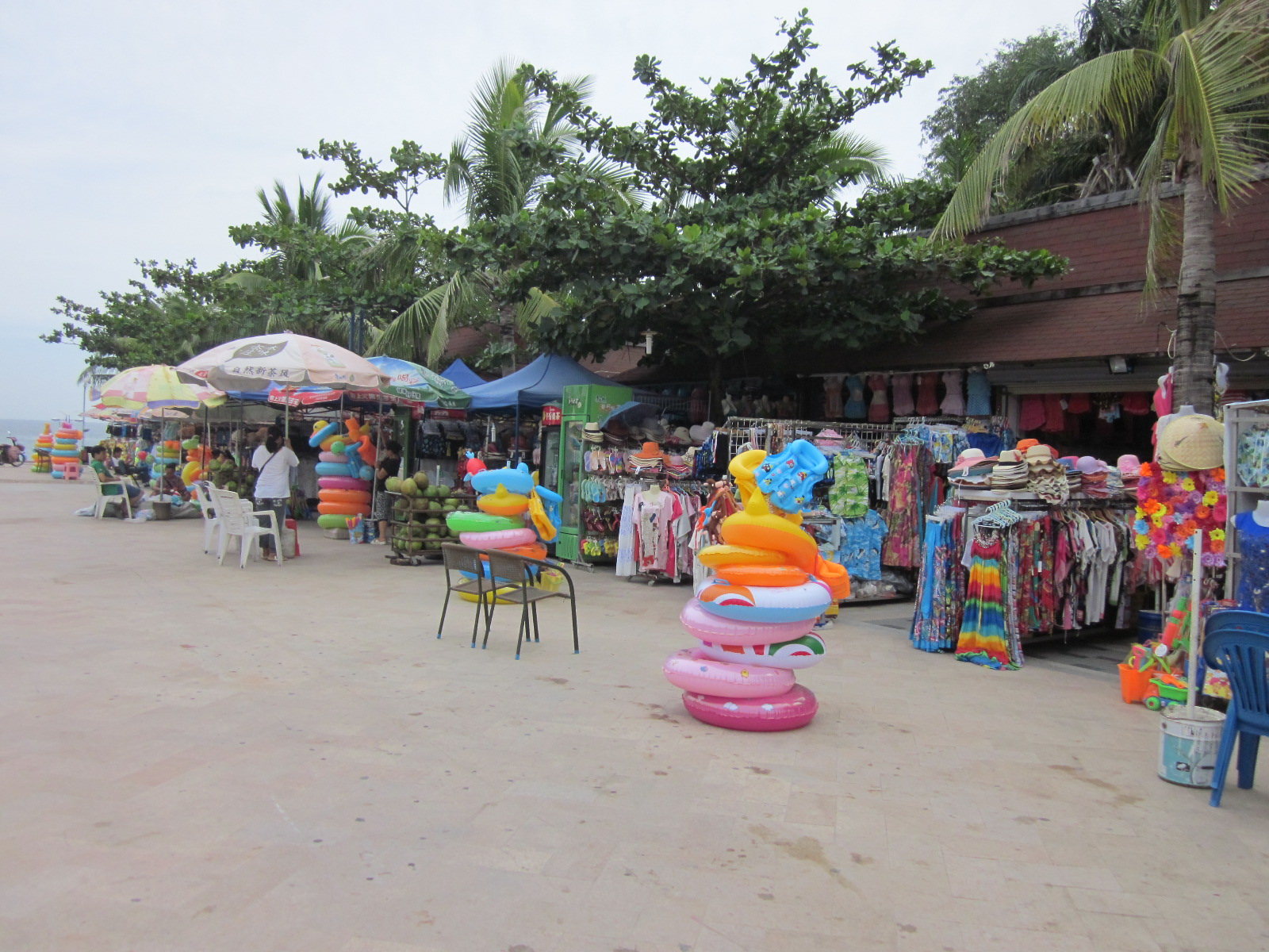 Dadonghai